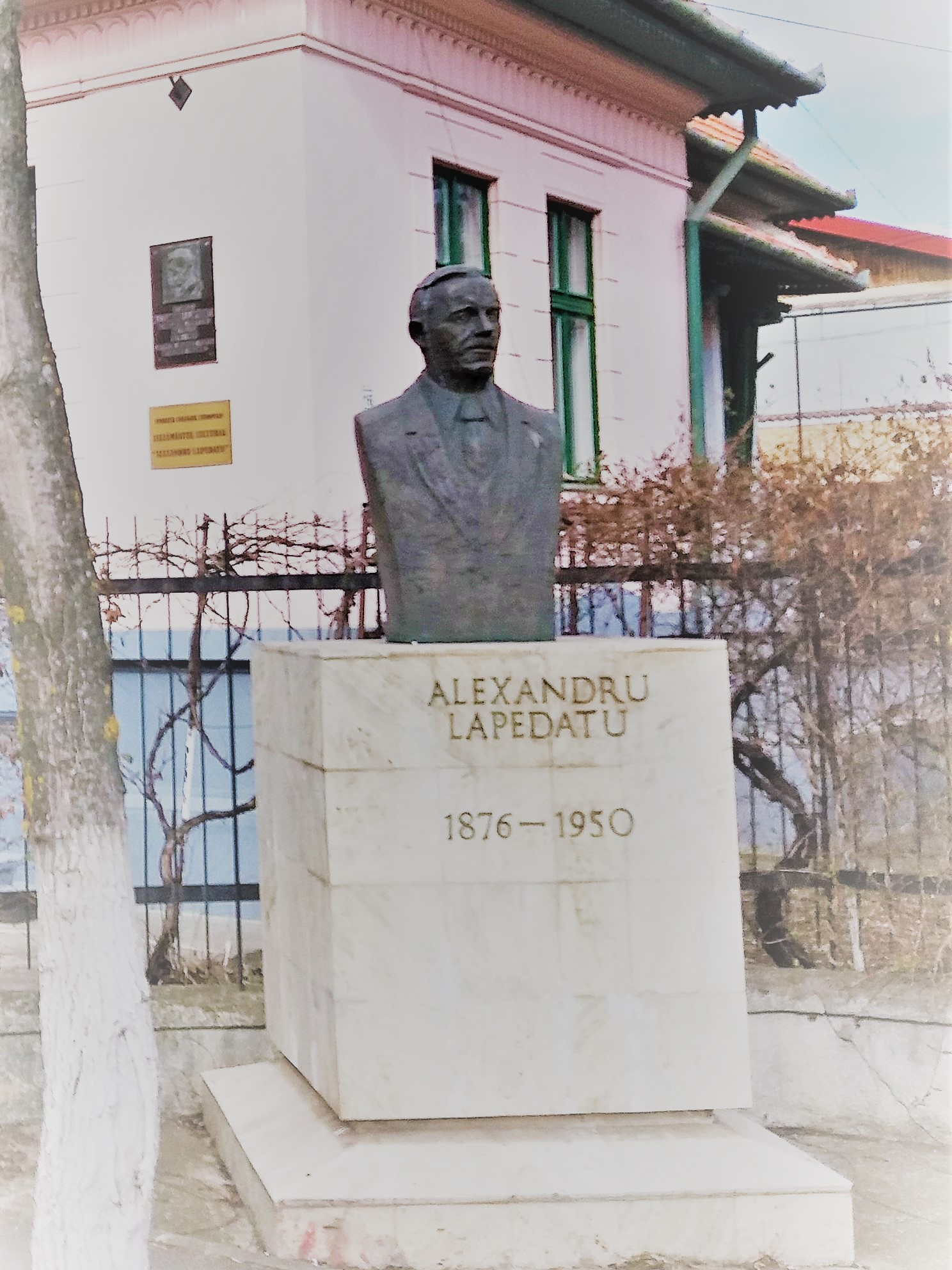 Al. Lapedatu statue, D. Bolintineanu Street, Cluj-Napoca, Romania